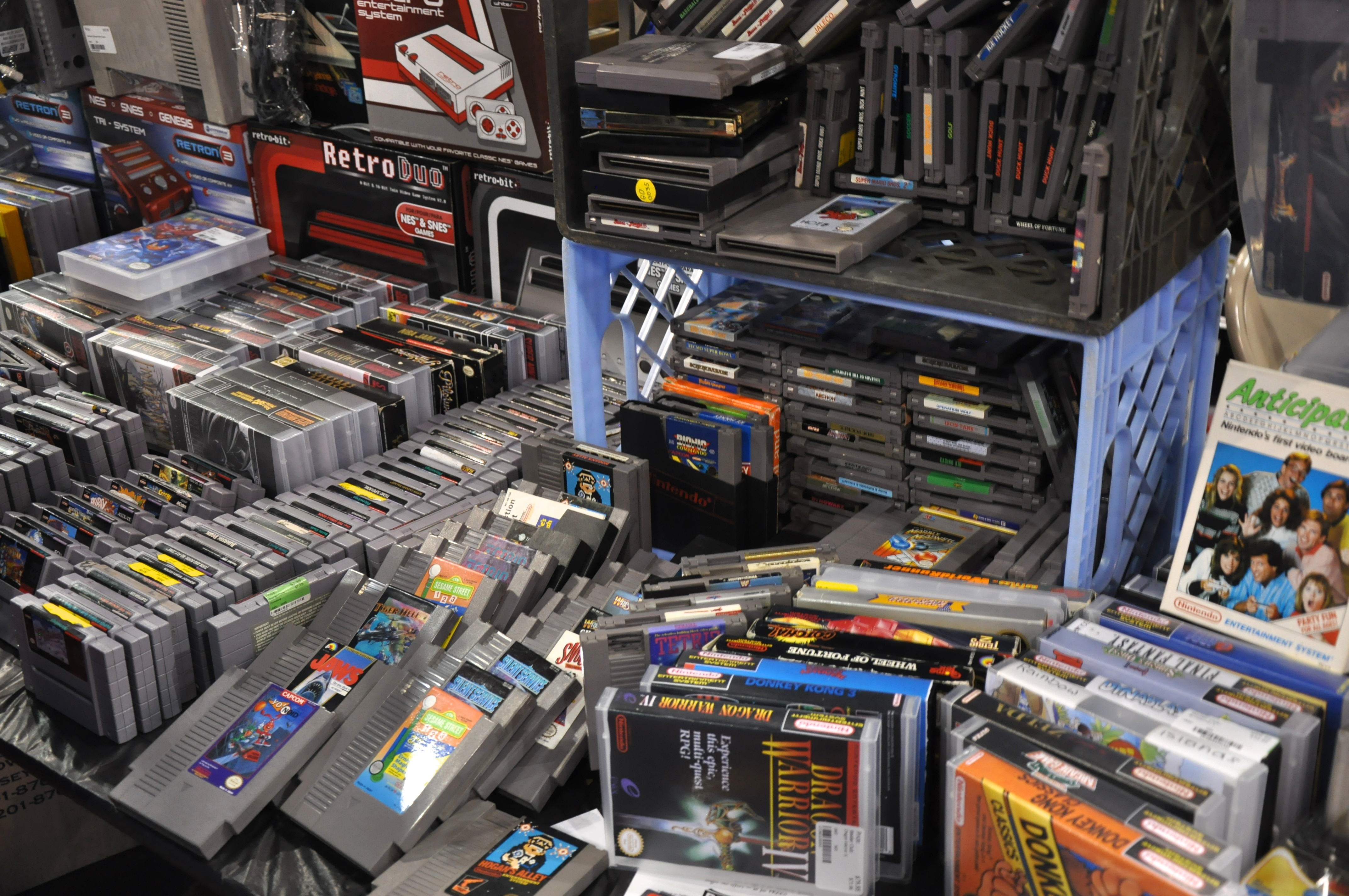 A video game collection on display at the 2011 New York ComicCon